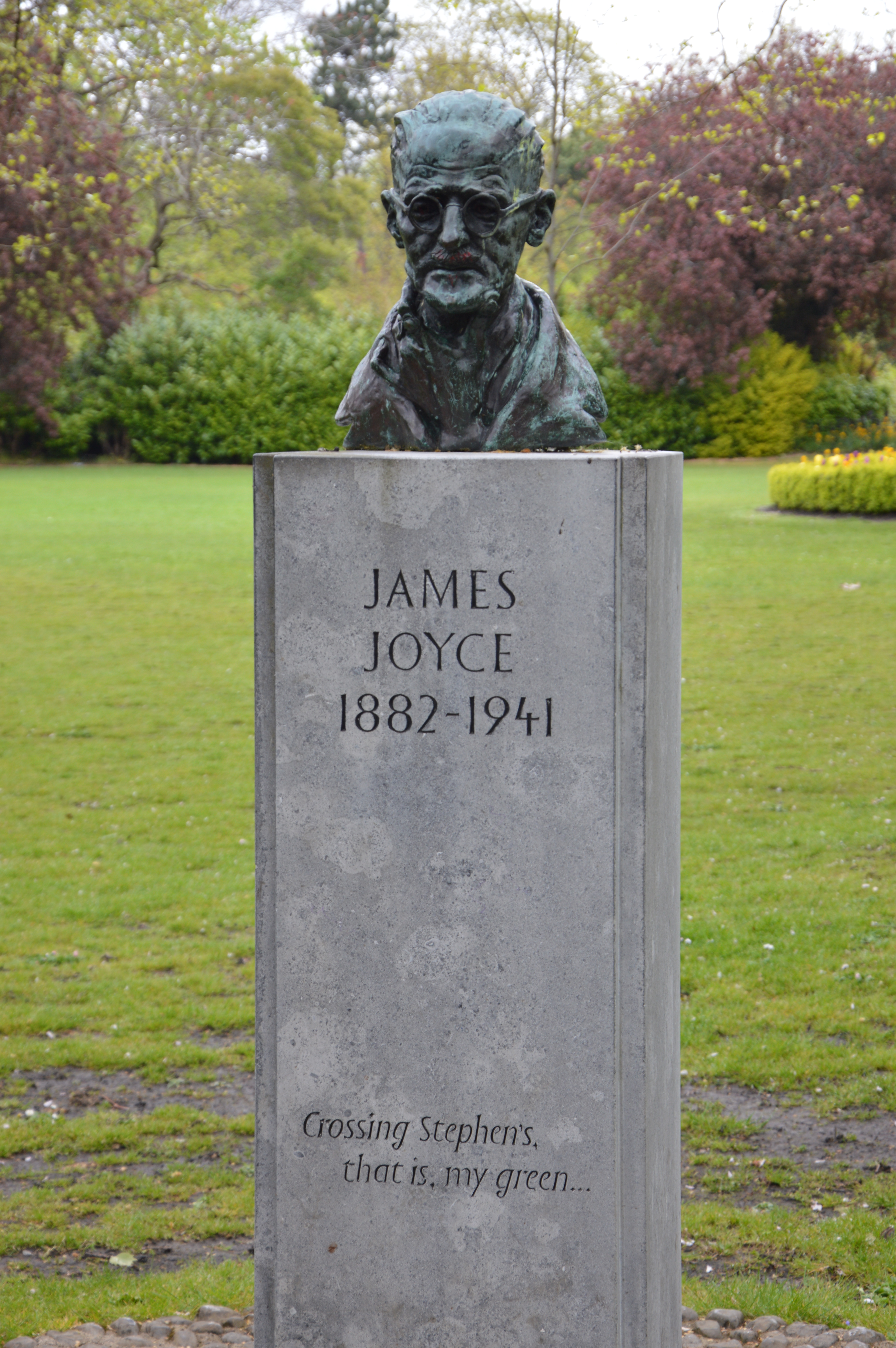 Marjorie Fitzgibbon's 1982 bust of James Joyce in St. Stephen's Green, Dublin.